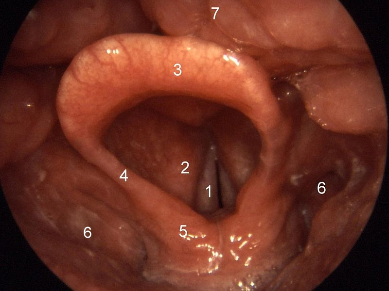 Larynx. 1=vocal chords, 2=vestibular fold, 3=epiglottis, 4=aryepiglottic folds, 5=arytenoid cartilage, 6=sinus piriformis, 7=base of the tongue